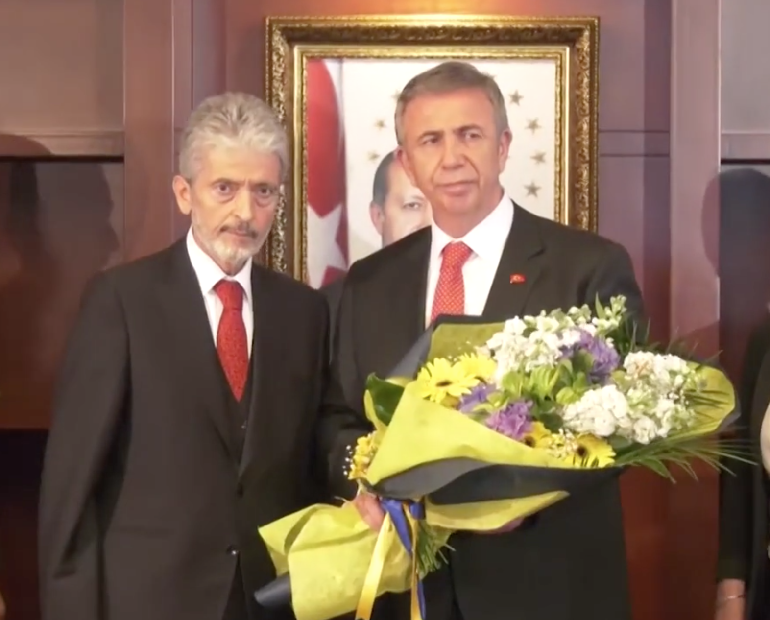 Handover ceremony between former Ankara Mayor Mustafa Tuna and elected Mayor Mansur Yavaş